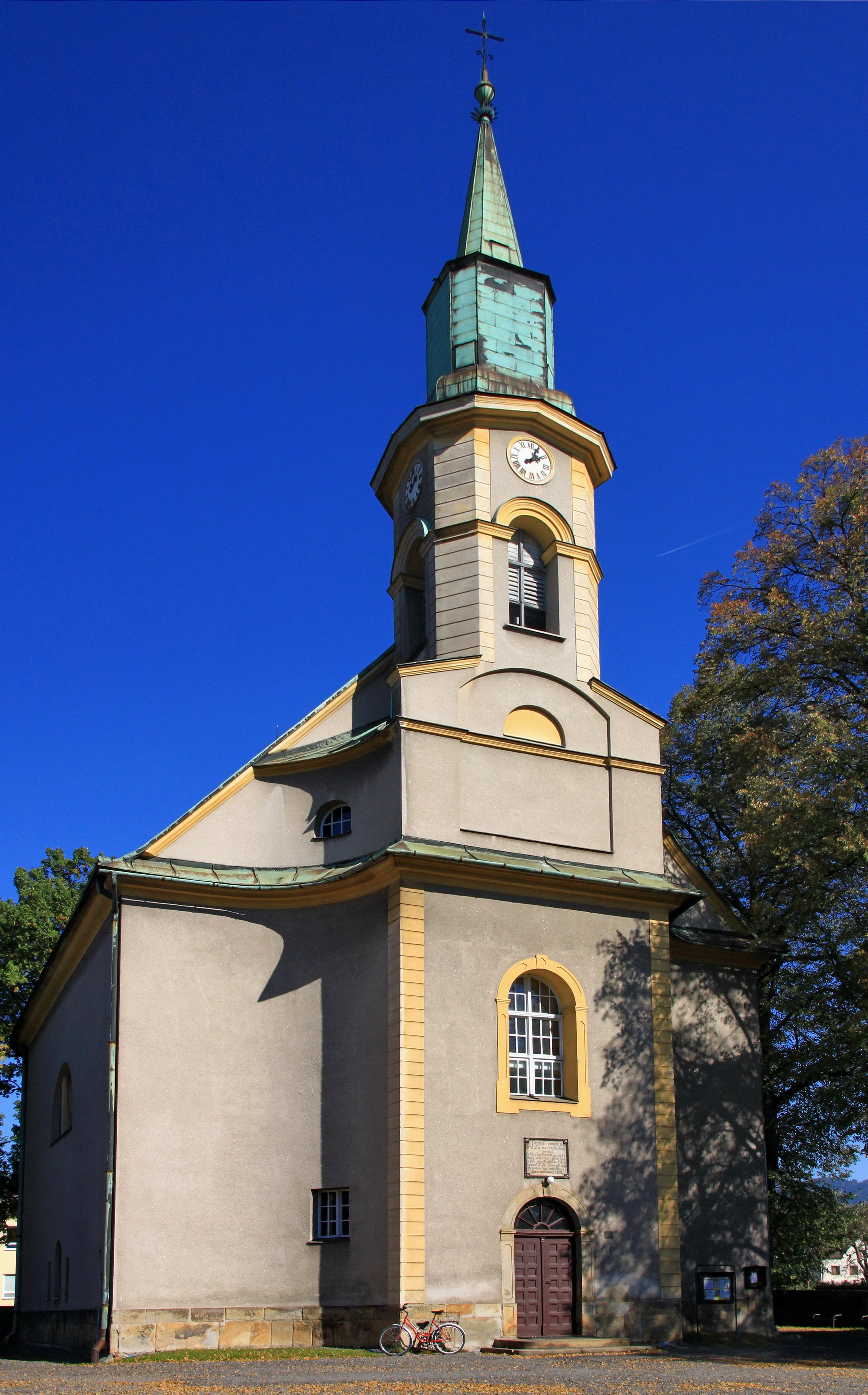 Lutheran church. Návsí, Moravian-Silesian Region, Czech Republic.